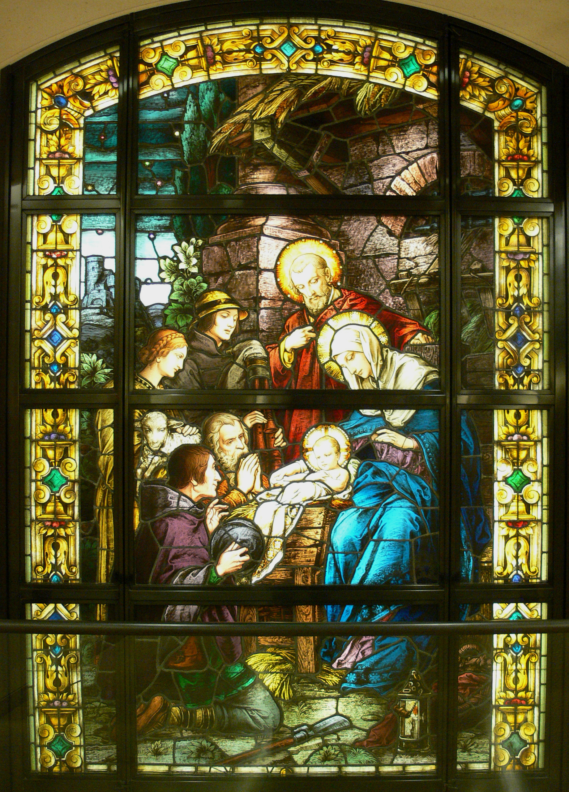 Stained glass windows in the Mausoleum of the Roman Catholic Cathedral of Our Lady of the Angels, Los Angeles, California; originally created in the 1920s for Saint Vibiana Cathedral, Los Angeles Nativity